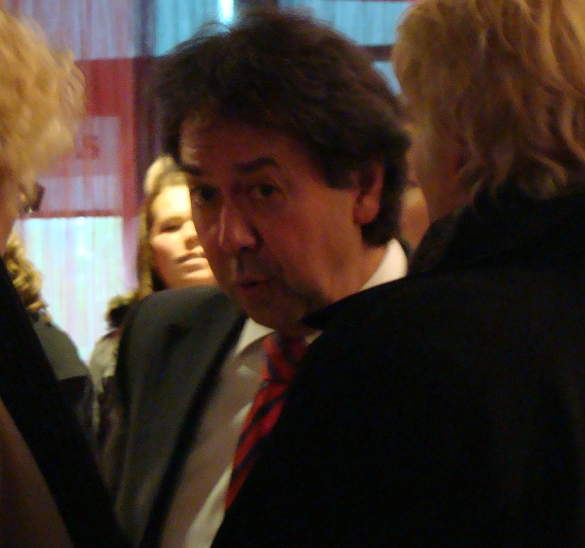 FC Twente president Joop Munsterman